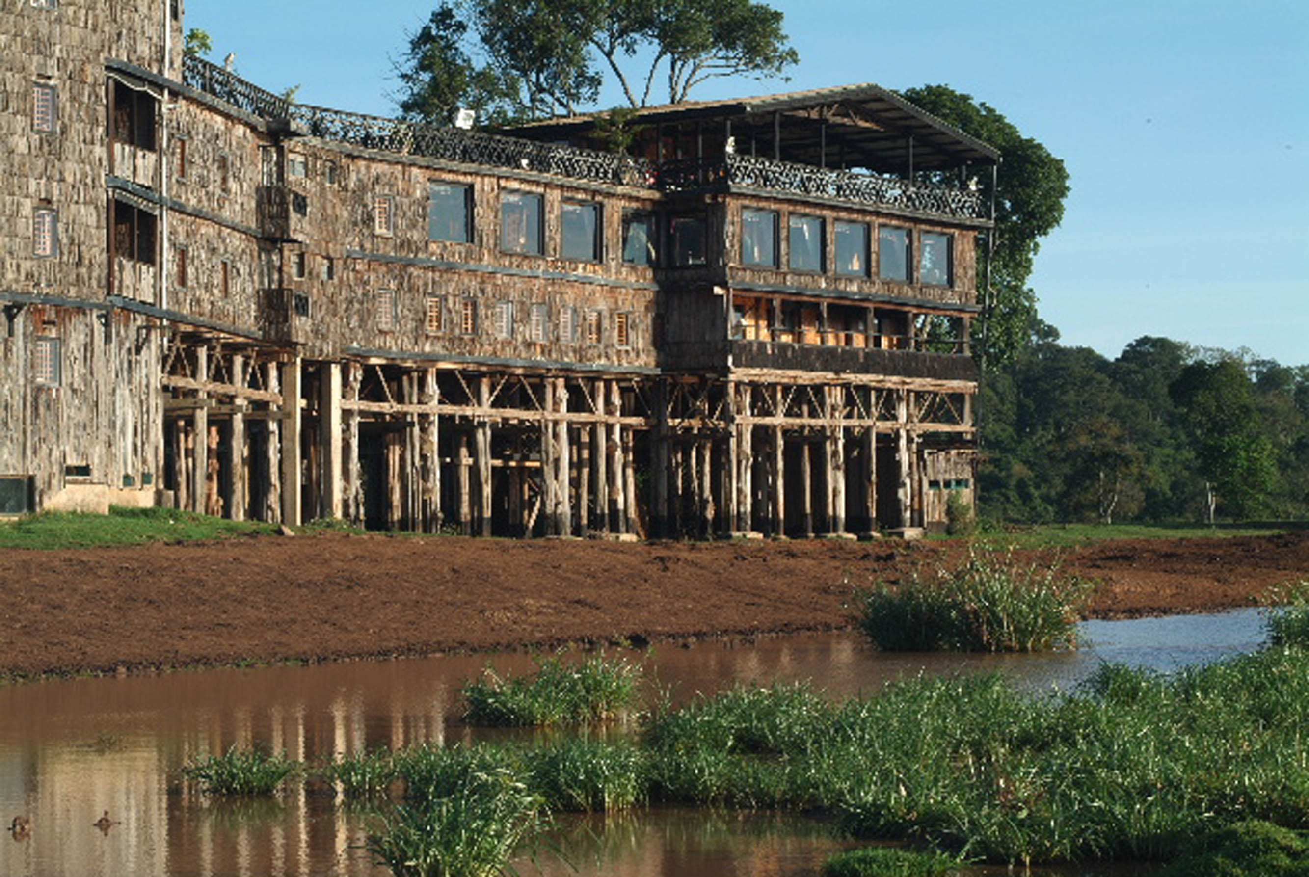 Frontage view of present-day Treetops